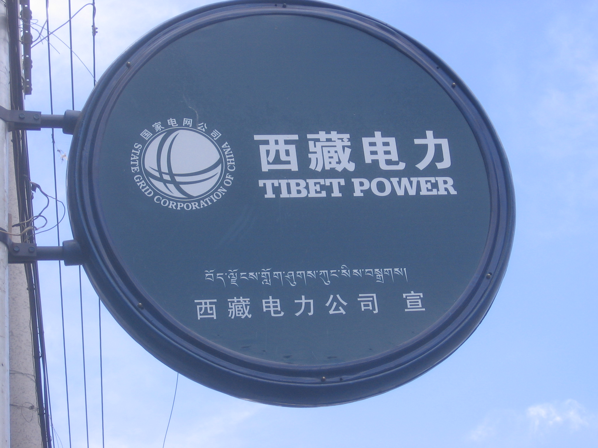 Photograph of a sign advertising the Tibet Power company. The text reads: "西藏电力; TIBET POWER; བོད་ལྗོངས་གློག་ཤུགས་ཀུང་སིས་བསྒྲགས། (bod ljongs glog shugs kung sis bskrags); 西藏电力公司 宣"